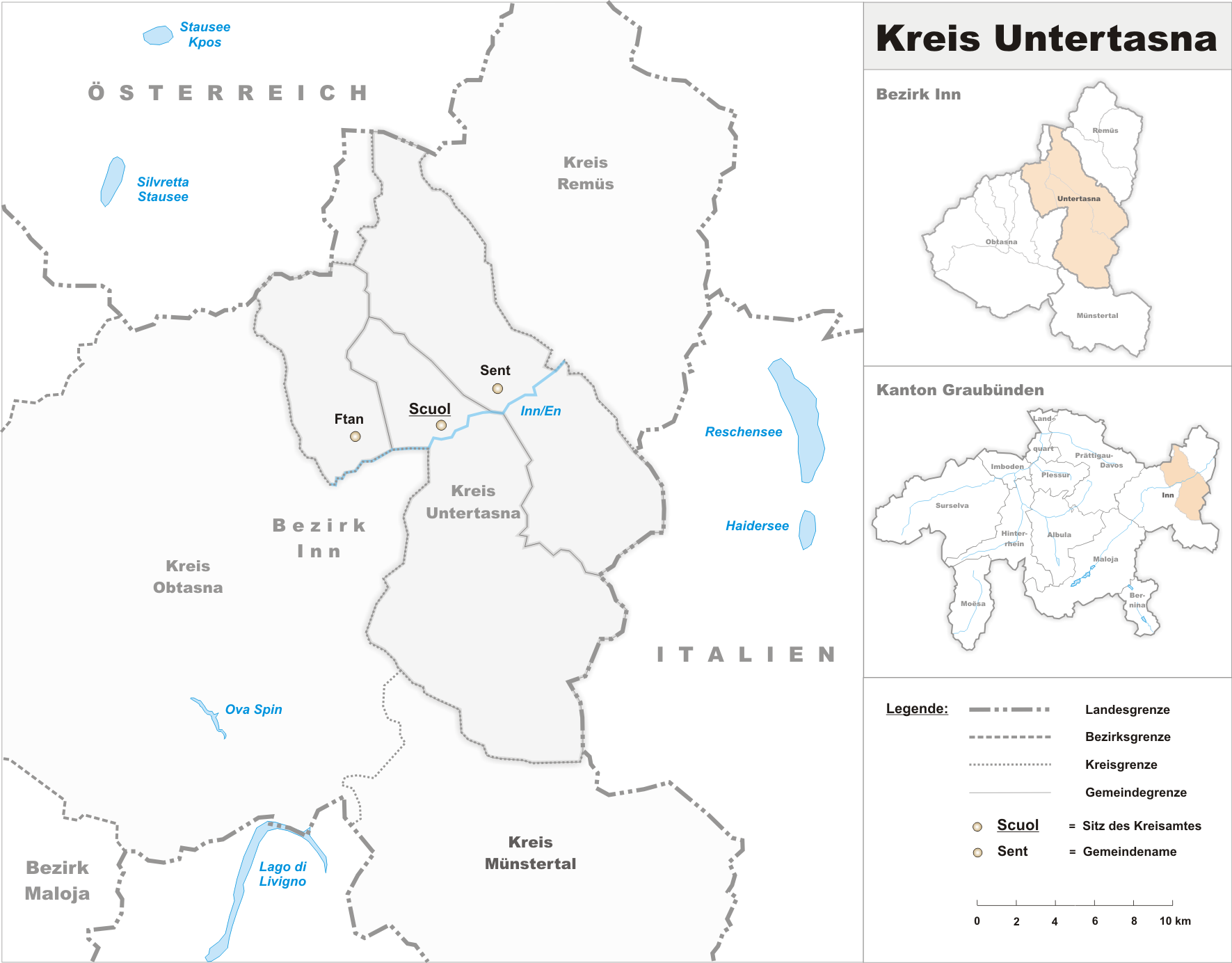 Municipalities in the circle of Untertasna